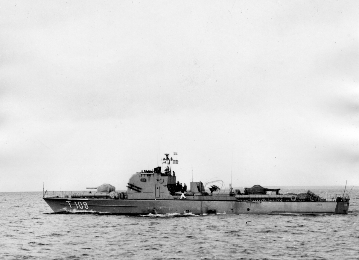 Torpedo boat HMS Altair (T108). Altair served with the Swedish Navy between 1957 and 1977, when she was decommissioned and sold to a private party. Altair was built by Lürssen shipyards, Bremen, West Germany. She was the seventh boat built in the Plejad-class. In total, the Swedish Navy had eleven Plejad torpedo boats. The last Plejad torpedo boat was decommissioned in 1981.